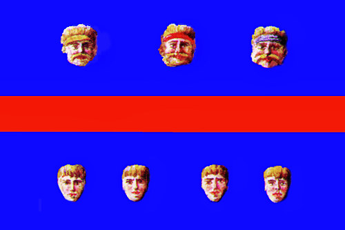 Sette Comuni (Asiago plateau) Coat of Arms